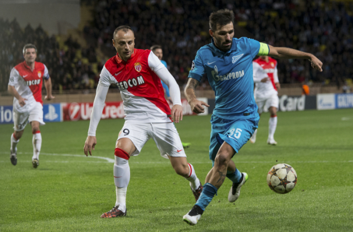 Dimitar Berbatov